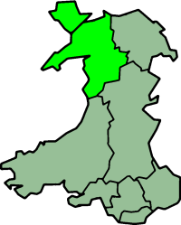 preserved county of Wales